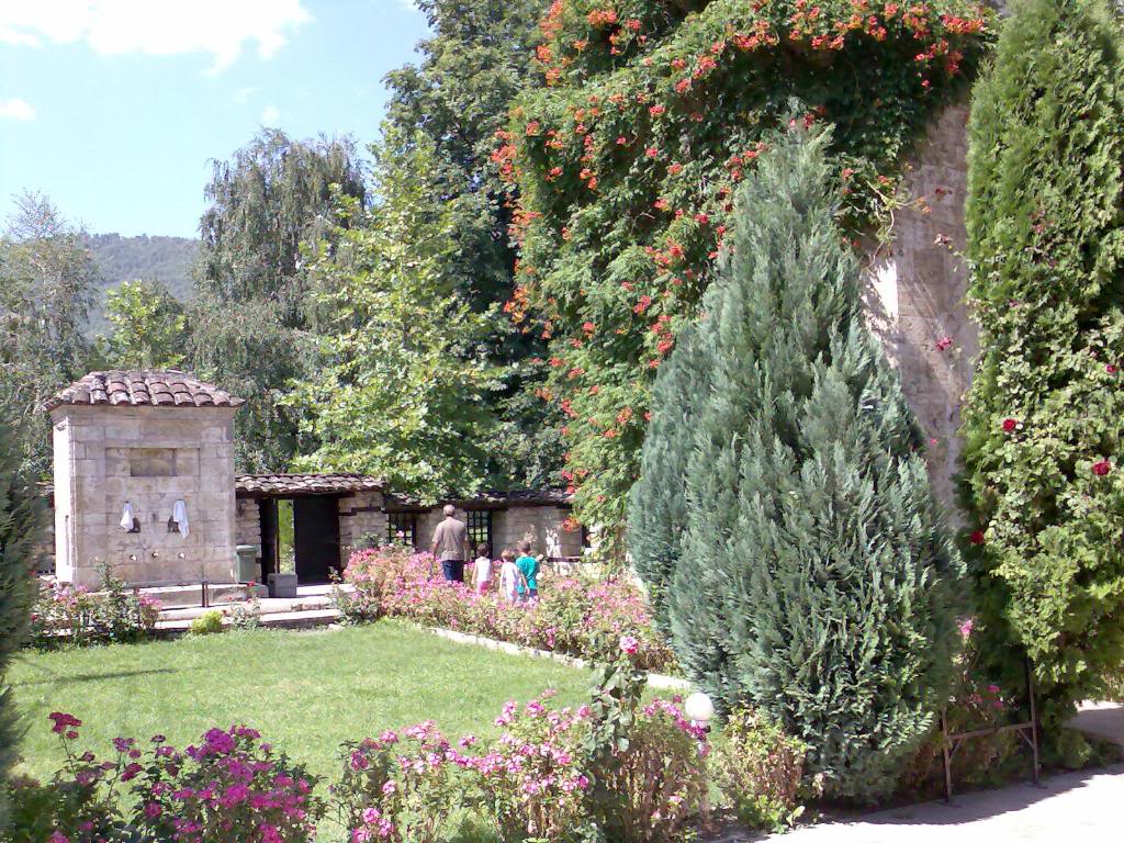 Tetovo, Republic of Macedonia